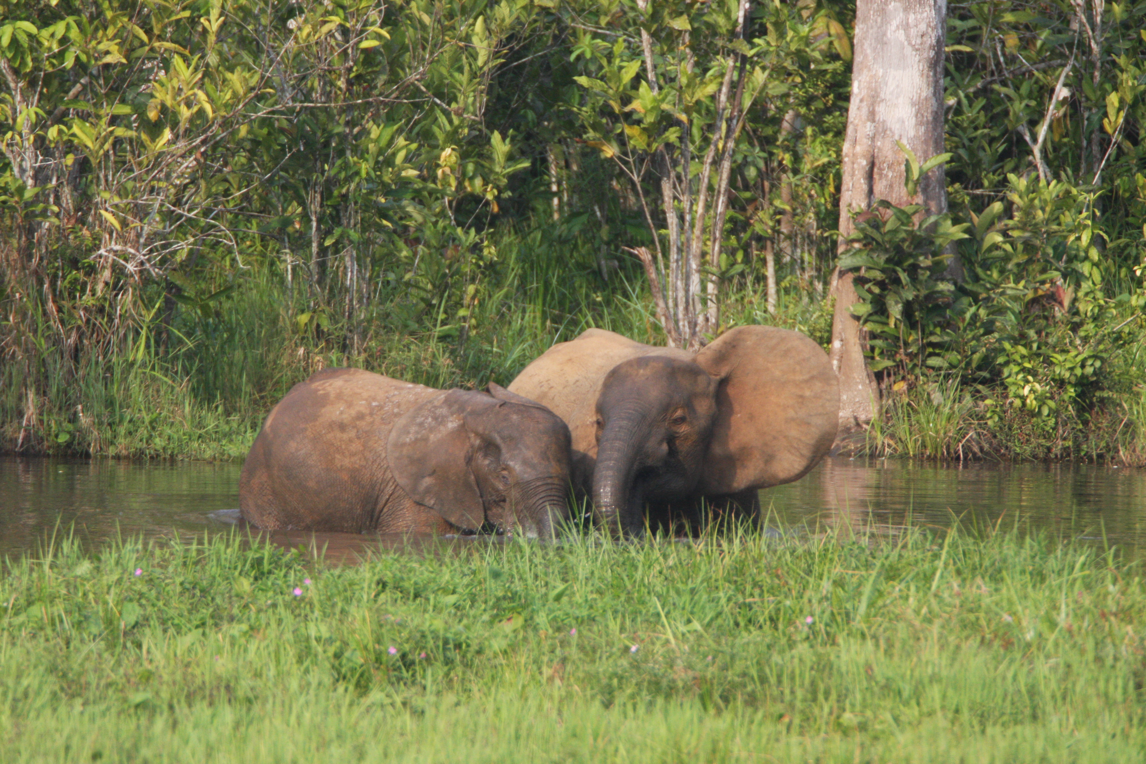 Female forest elephants have a close bond with all of their families for all their lives. A mother with offspring drinking from a spring. Credit: Michelle Gadd/USFWS